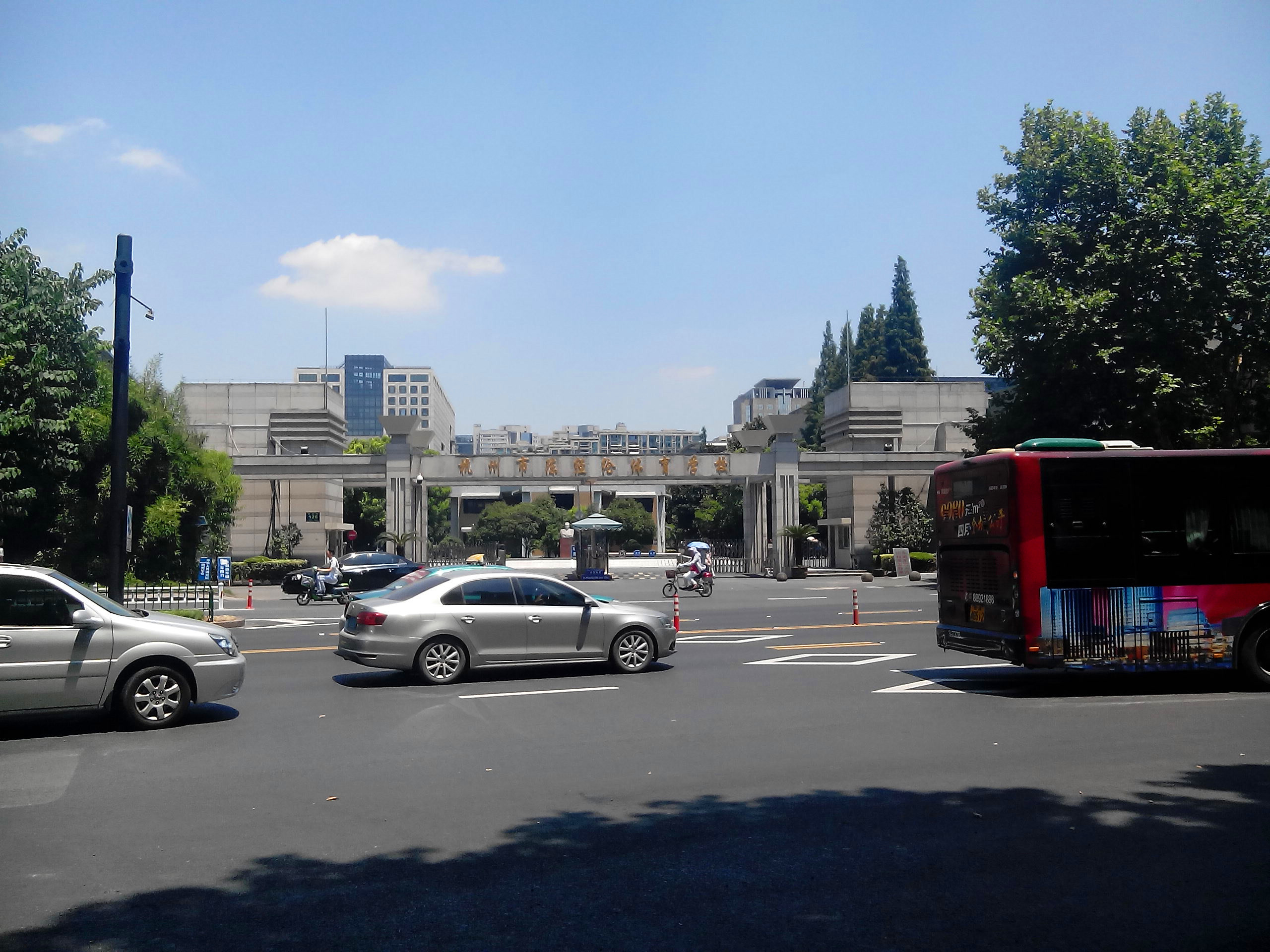 Chen Jinglun sports school